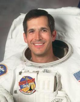 John Herrington, American business executive, former US Navy officer and former NASA astronaut. He is a veteran of one Space Shuttle mission. He is the first enrolled member of a Native American tribe of Spokan to fly in space.